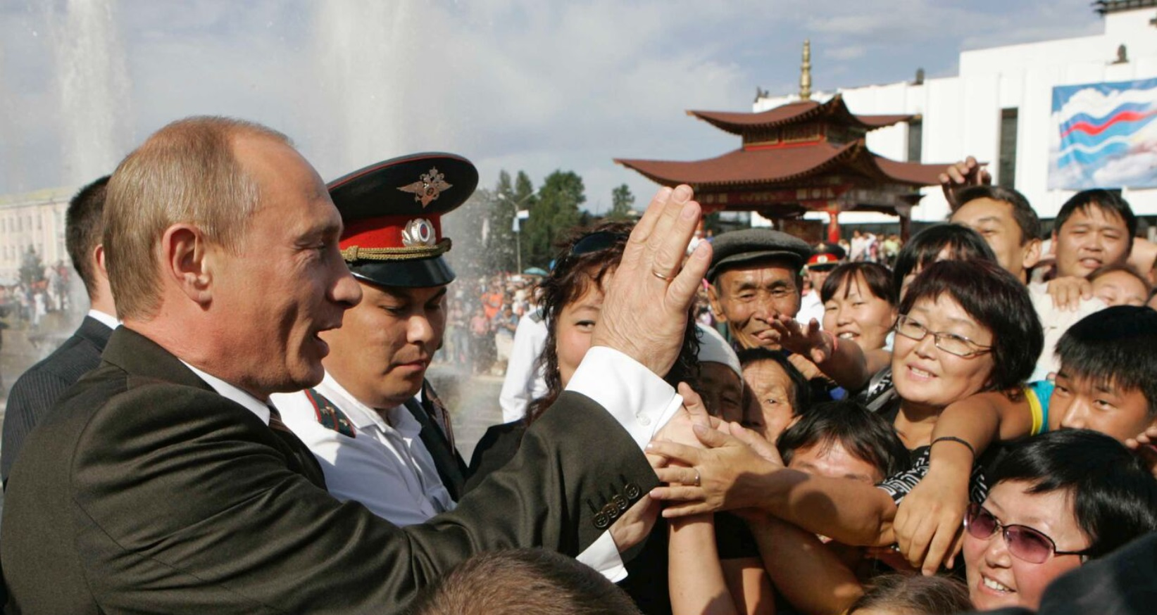 TYVA REPUBLIC. In the streets of Kyzyl.